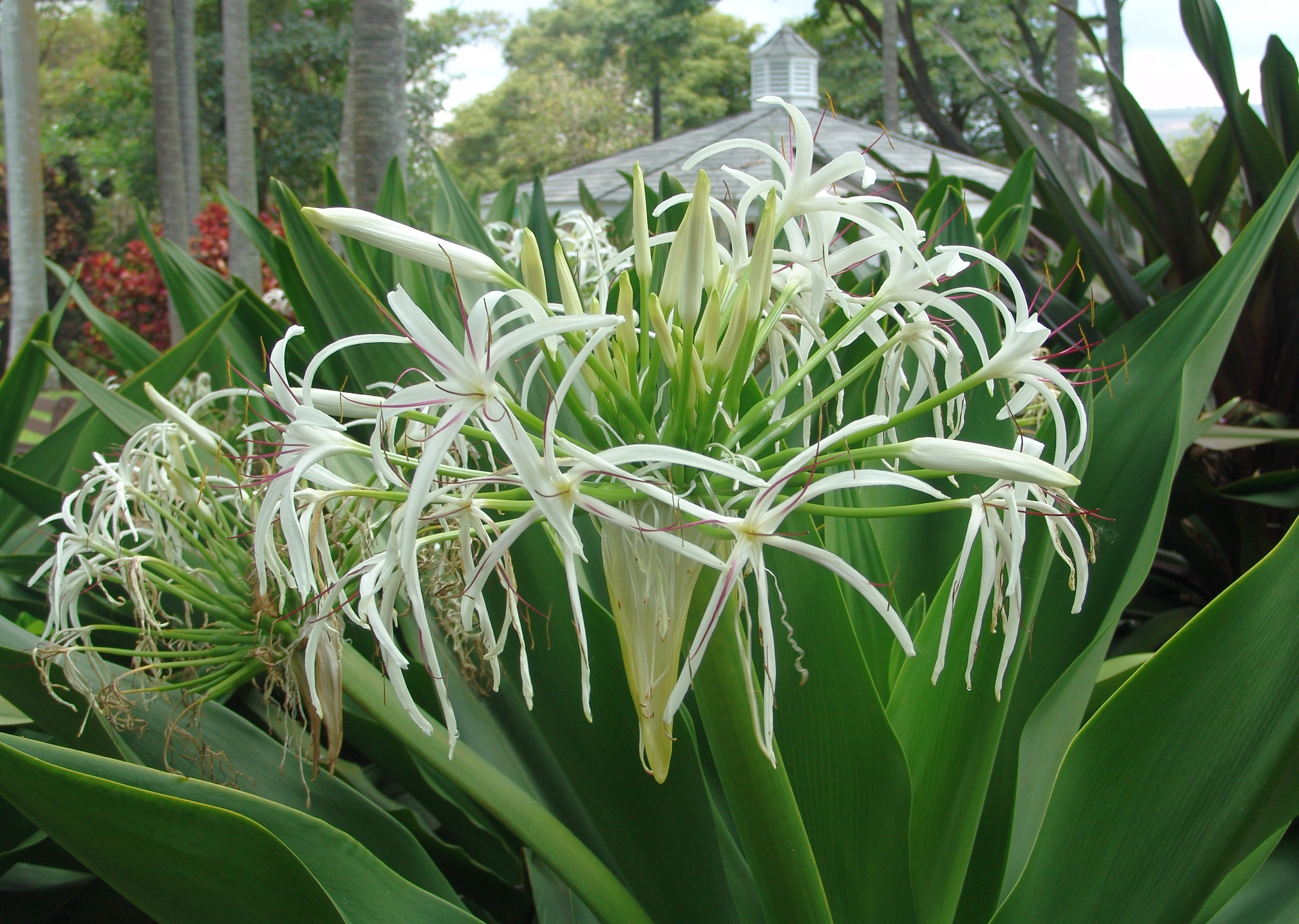 Foster Botanical Garden Oahu Hawaii